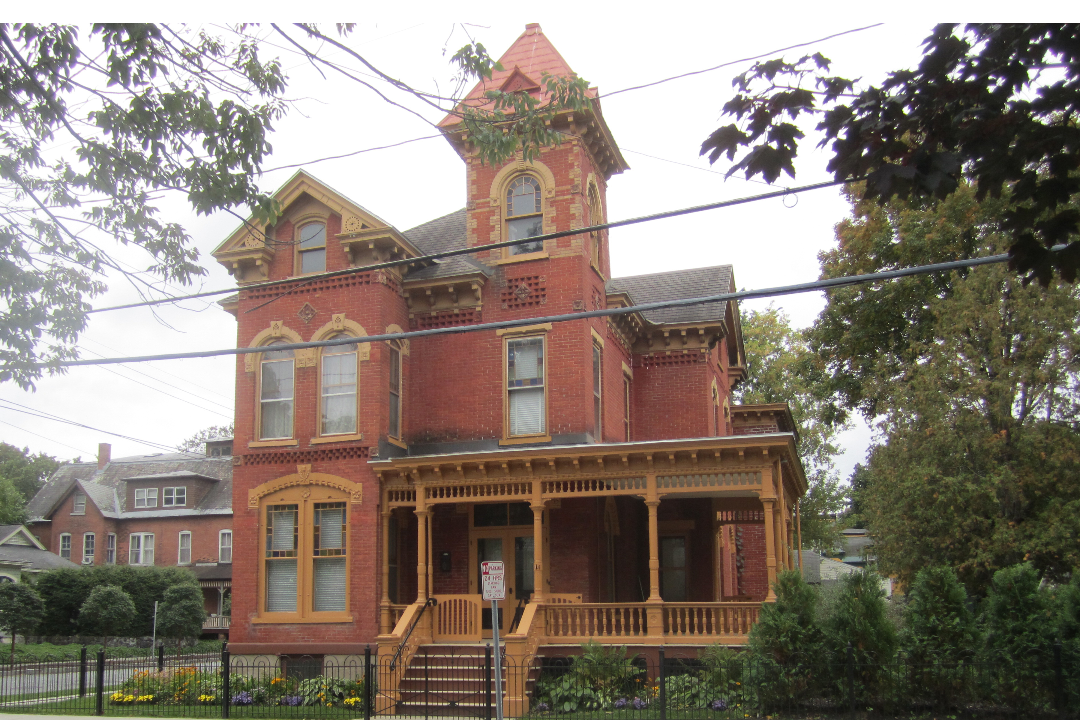 114 Caroline St., Saratoga Springs NY. Designed by R. Newton Brezee for W.R. Waterbury, 1888